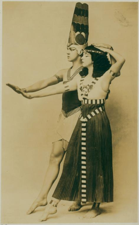 Digital ID: DEN_0183V Notes: National Endowment for the Arts Millennium Project. Source: Denishawn Collection ( more info ) Repository: The New York Public Library. The New York Public Library for the Performing Arts. Jerome Robbins Dance Division. See more information about this image and others at NYPL Digital Gallery . Persistent URL: Rights Info: No known copyright restrictions; may be subject to third party rights (for more information, click here )